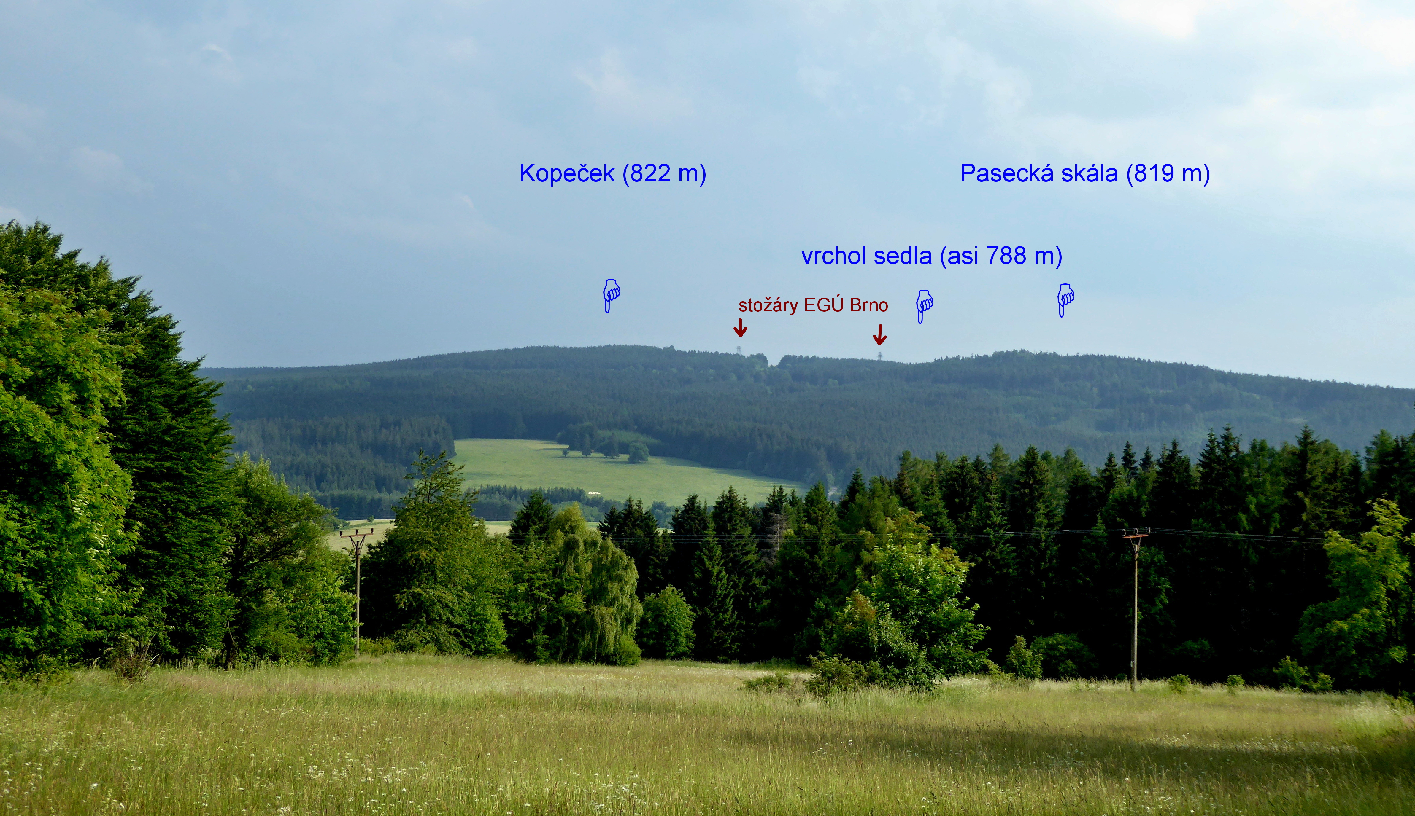 "Žďár" Hills, peaks "Kopeček" (822 m) and "Pasecká" Rock (819 m) in the georelief of the "Pohledeckoskalská" Highlands (geomorphological district). "Pasecká" Rock in the photo on right. The saddle (the top 792 m) separates the hills, with the road II / 354 in the section "Sněžné - Nové Město na Moravě". The saddle (the top 787 m) separates the hills, in a saddle with the road II / 354 in the section "Sněžné - Nové Město na Moravě". View of the peaks from the north, from the road connecting the small hamlets of "Krátká" and "Samotín." Above the wooded ridge the tops of the masts for the high voltage distribution (the EGÚ Brno test station on the southwest slope of Kopeček hill). Photo-location: Czechia, "Vysočina" Region, the small town of "Sněžné", cadastral territory "Krátká", the locality "Na Teplé" above the border between the geomorphological units, geomorphological districts "Devítiskalská" Highlands and "Pohledeckoskalská" Highlands, distance 3,1 km (180°).